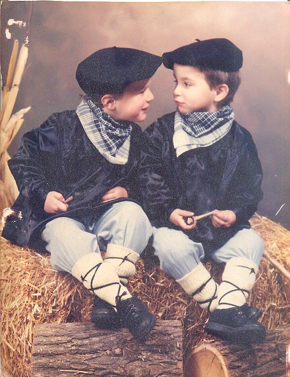 Basque children with tradiotnal costume.